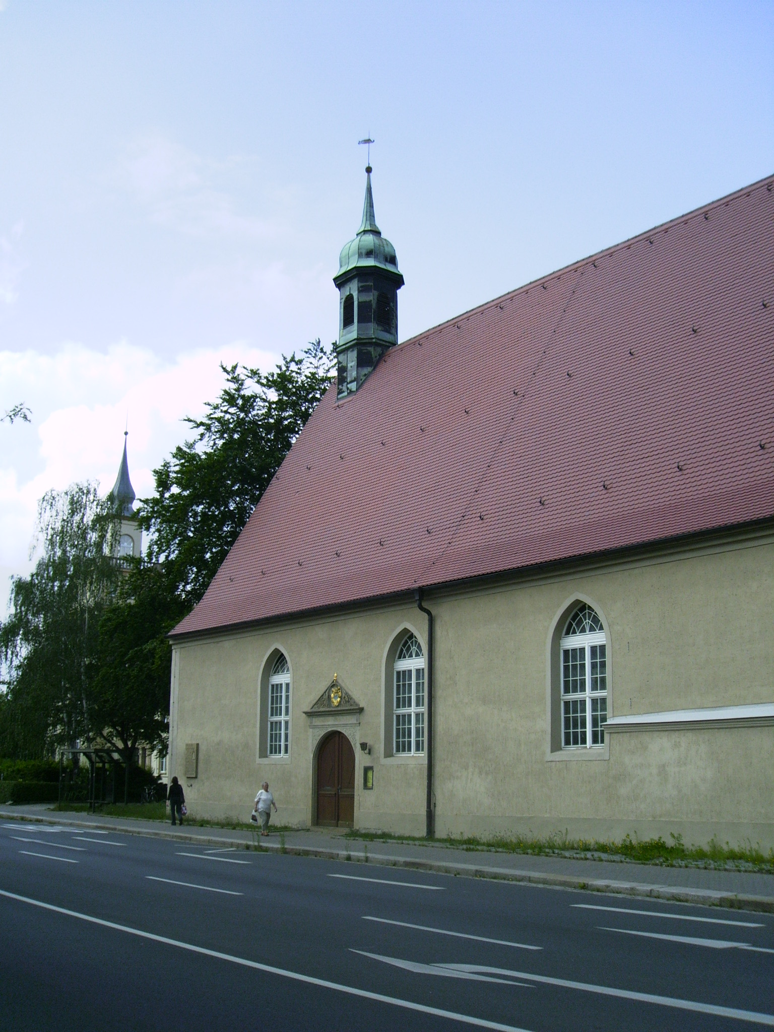 Bautzen; Taucherkirche church